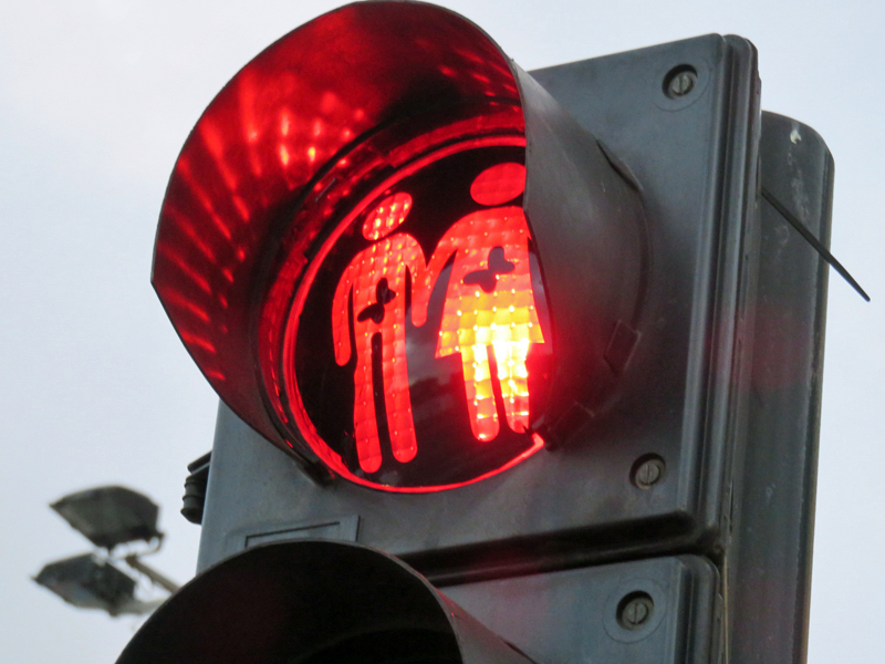 Traffic light with male-female couple during the EuroPride in Amsterdam, July 2017